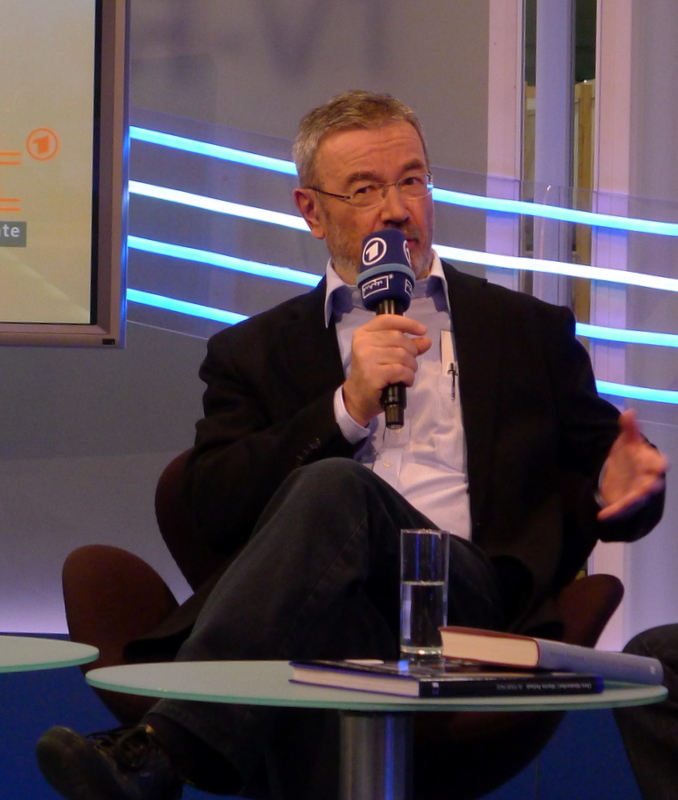 Austrian writer, winner of the Leipzig Book Award for European Understanding 2011. Foto was made at the Leipzig Book Fair 2011 Österreichischer Schriftsteller, Preisträger des Leipziger Buchpreises für Europäische Verständigung 2011. Das Foto entstand auf der Leipziger Buchmesse 2011.